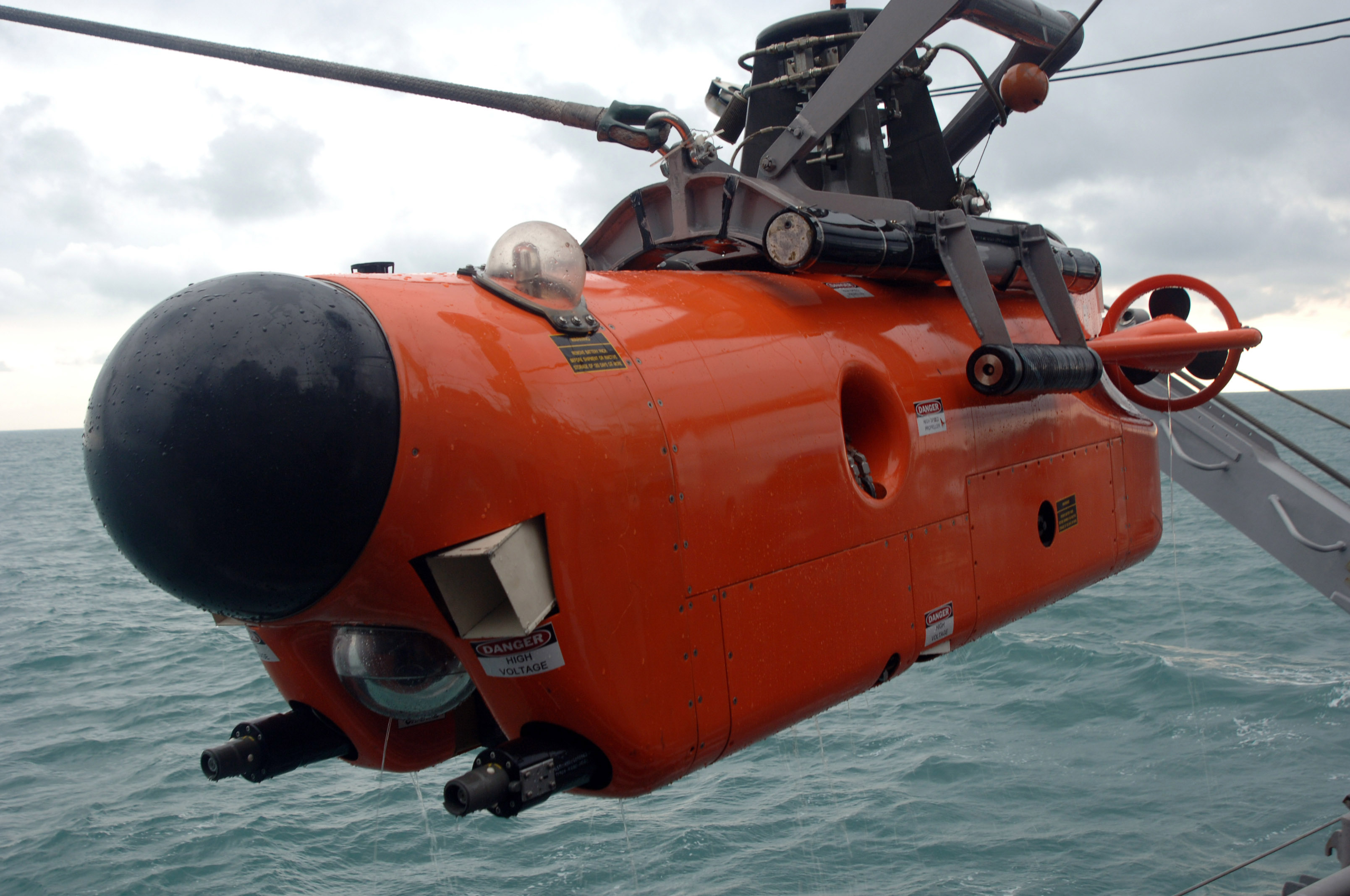 Persian Gulf (Dec. 1, 2006) — One of the Navy's Mine Neutralization Vehicles (MNV) is lowered over the side prior to a mine countermeasure exercise aboard USS Ardent (MCM-12). The MNV's mission is to seek and destroy mines and is used in the region to support maritime security operations (MSO). MSO help set the conditions for security and stability in the maritime environment as well as complement the counter-terrorism and security efforts of regional nations. These operations deny international terrorists use of the maritime environment as a venue for attack or to transport personnel, weapons or other material.